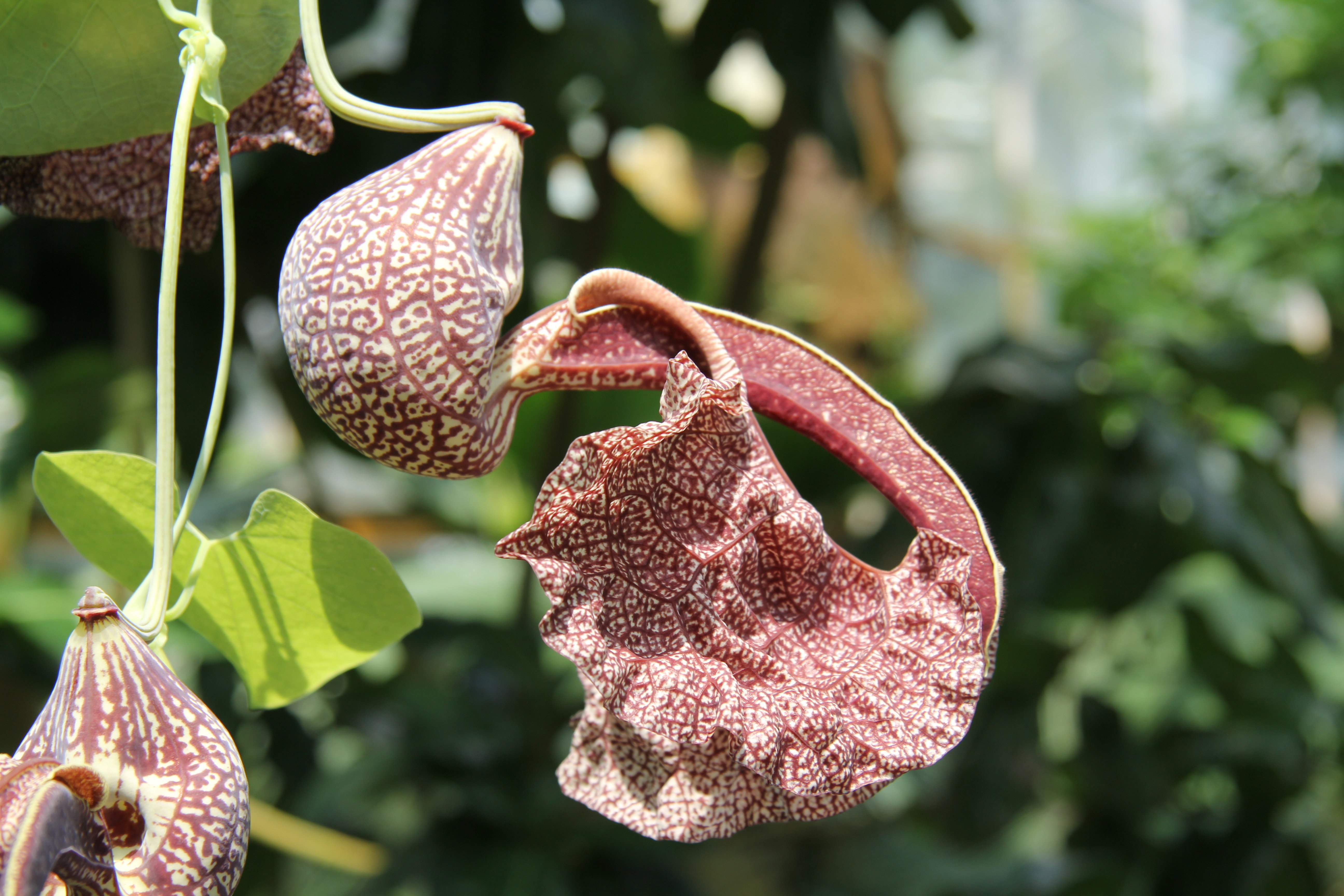 Flower of an Aristolochia labiata plant in the Palmengarten in Frankfurt/Main, Germany